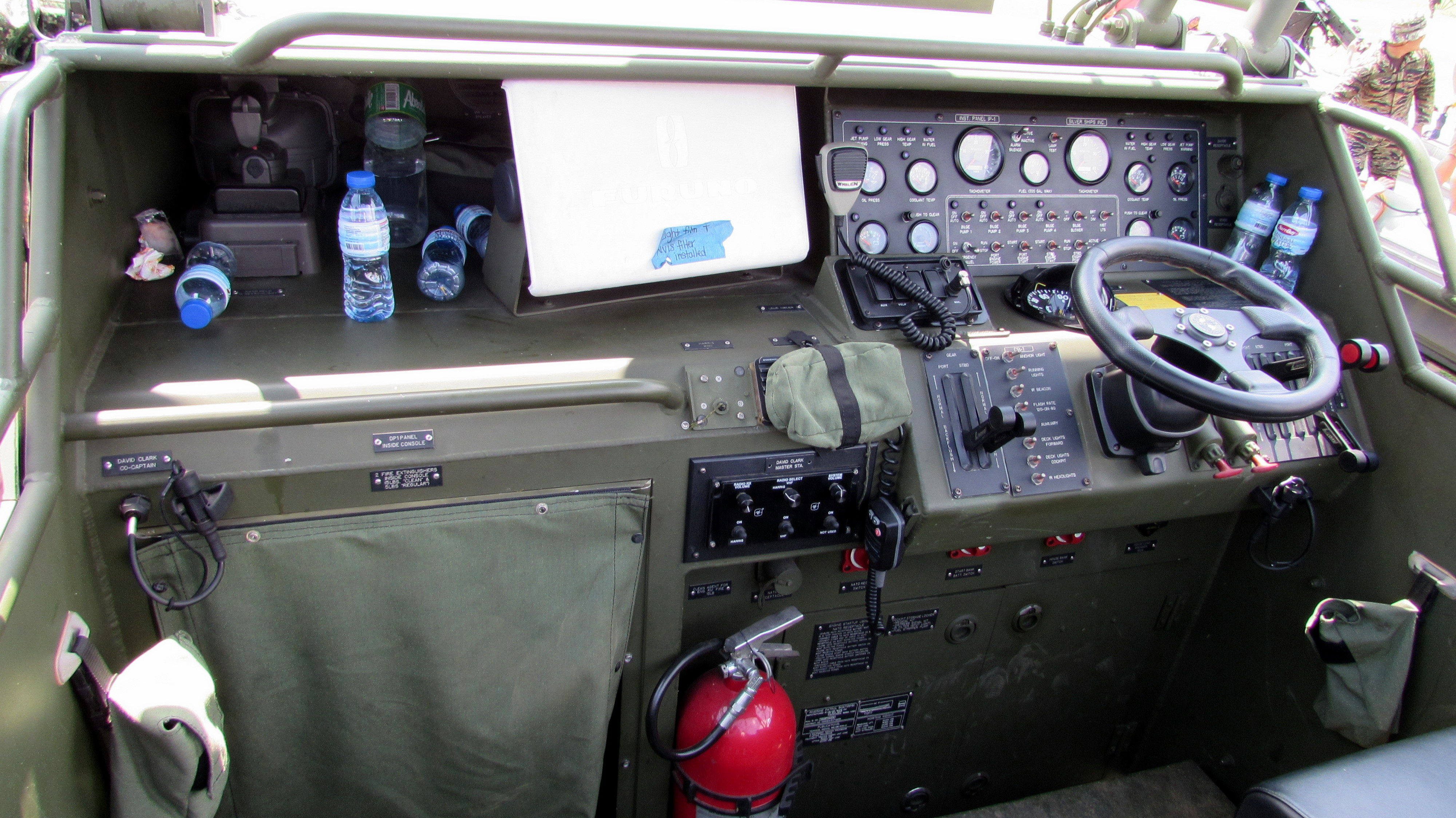 The Cockpit Console of the Riverine Patrol Boat (RPB) of the Philippine Marine Corps (PMC). Photo taken during the 118th Independence Day Static and Kinetic Display at the Luneta Park.